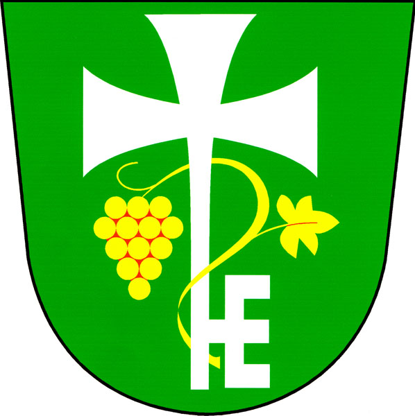 Municipal coat of arms of Petrovice village, Znojmo District, Czech Republic.